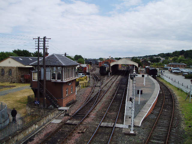 Bo'ness railway station. This station belongs to the Bo'ness and Kinneil Railway (who run steam train trips between here and Birkhill Claymine) and was originally the station at Wormit on the southern approaches of the Tay bridge before being brought to Bo'ness by the Scottish Rail Preservation Society when they started this railway. The Railway also includes a museum and fine views of the River Forth.